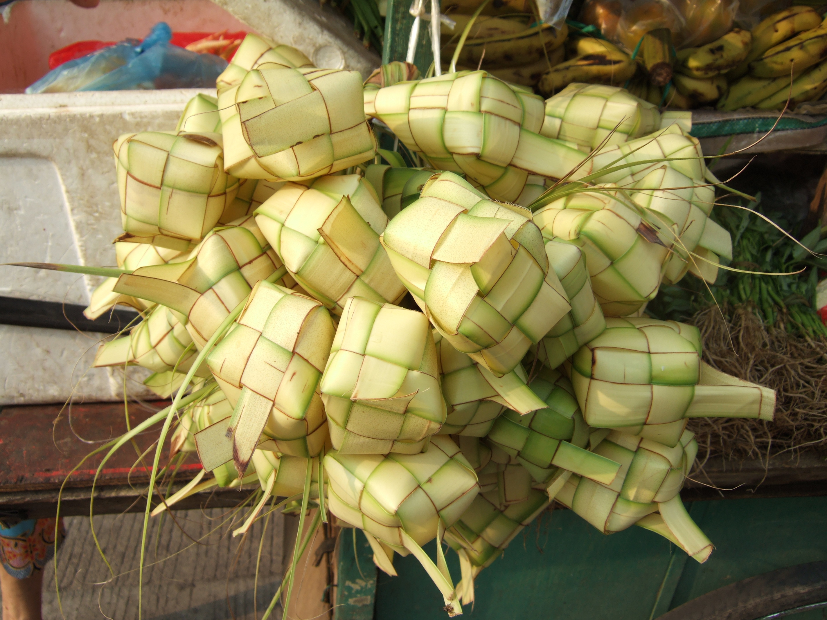 Ketupat baskets